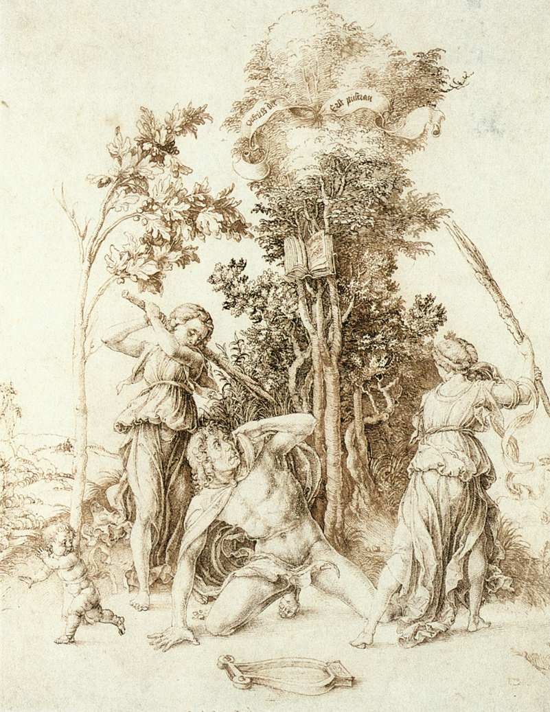 Albrecht Dürer, The Death of Orpheus, pen and ink drawing, 1494 (Kunsthalle, Hamburg). In this Albrecht Dürer’s 1494 drawing, the banner hung in the tree reads: Orfeus der erst puseran (“Orpheus, the first sodomite”). The word puseran(t) derives from the Italian buggerone, which in its turn derives from Latin bulgarus from which come also the terms bugger in English and bougre in French. Though the drawing could be taken as a Northern European reaction to sodomy, it is actually based on an original, now lost, by the Italian master Andrea Mantegna.